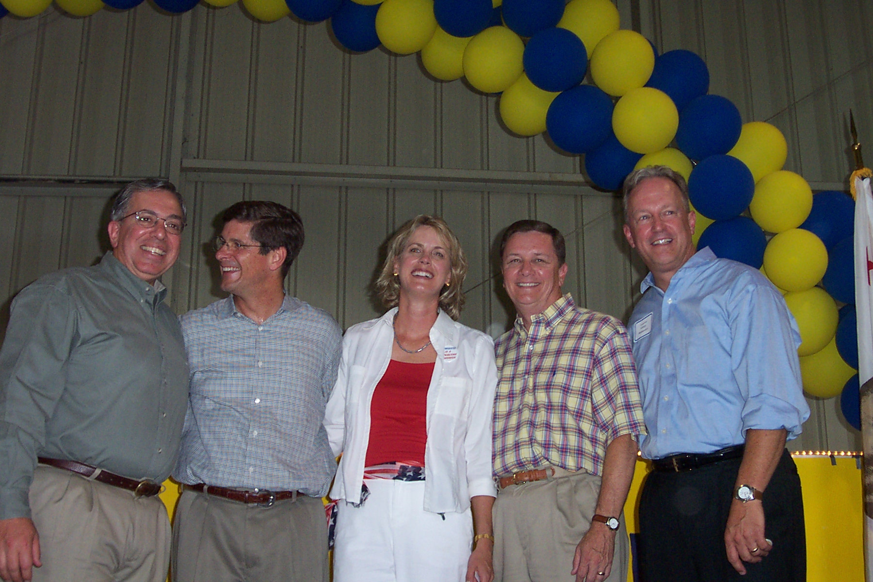 Congressman George Radanovich with Assemblyman Dave Cogdill, Cindy & Bill Simon Candidate for Governor of California and Senator Chuck Poochigian (September 2002)